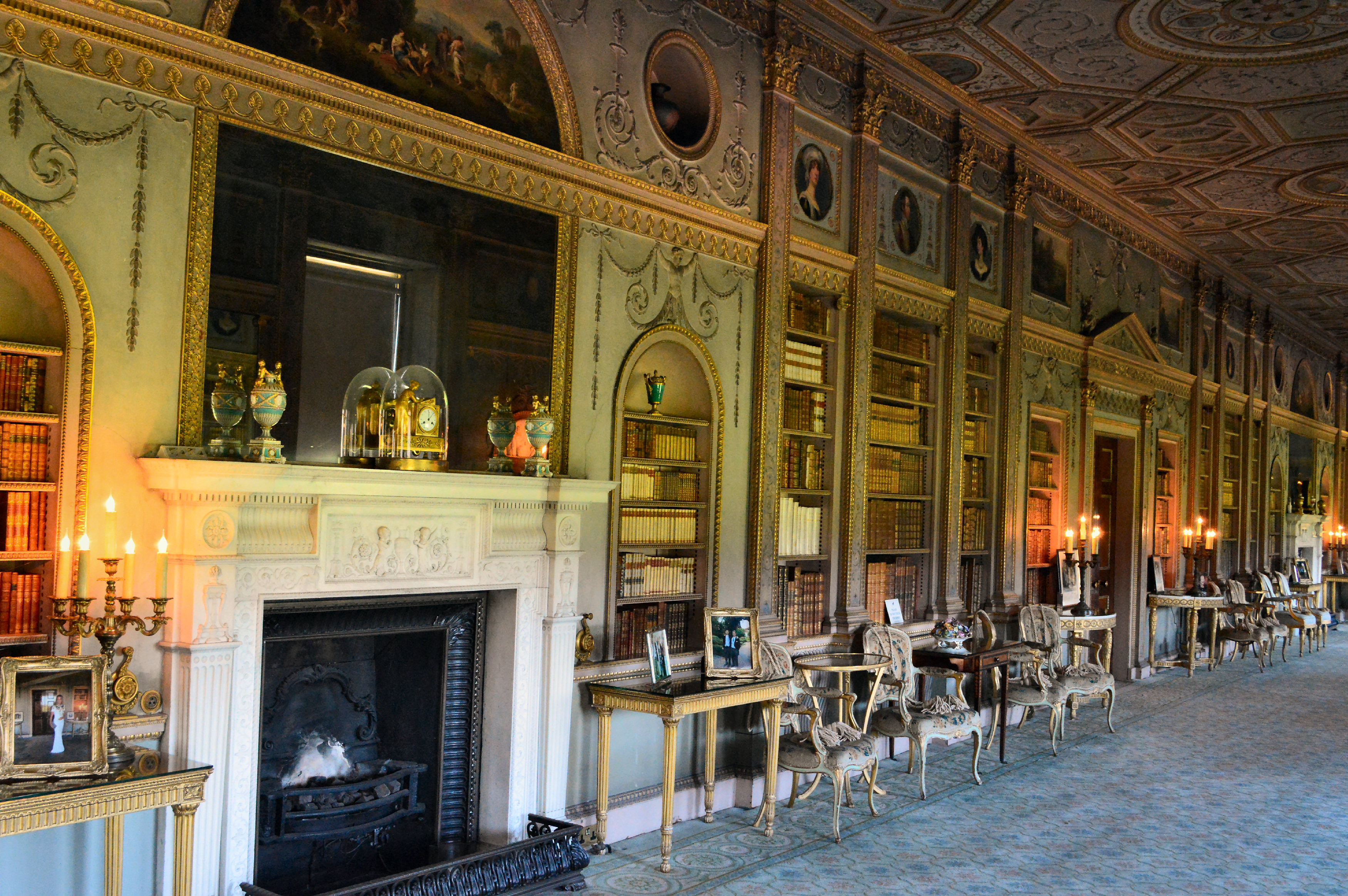 Syon House, Long Gallery